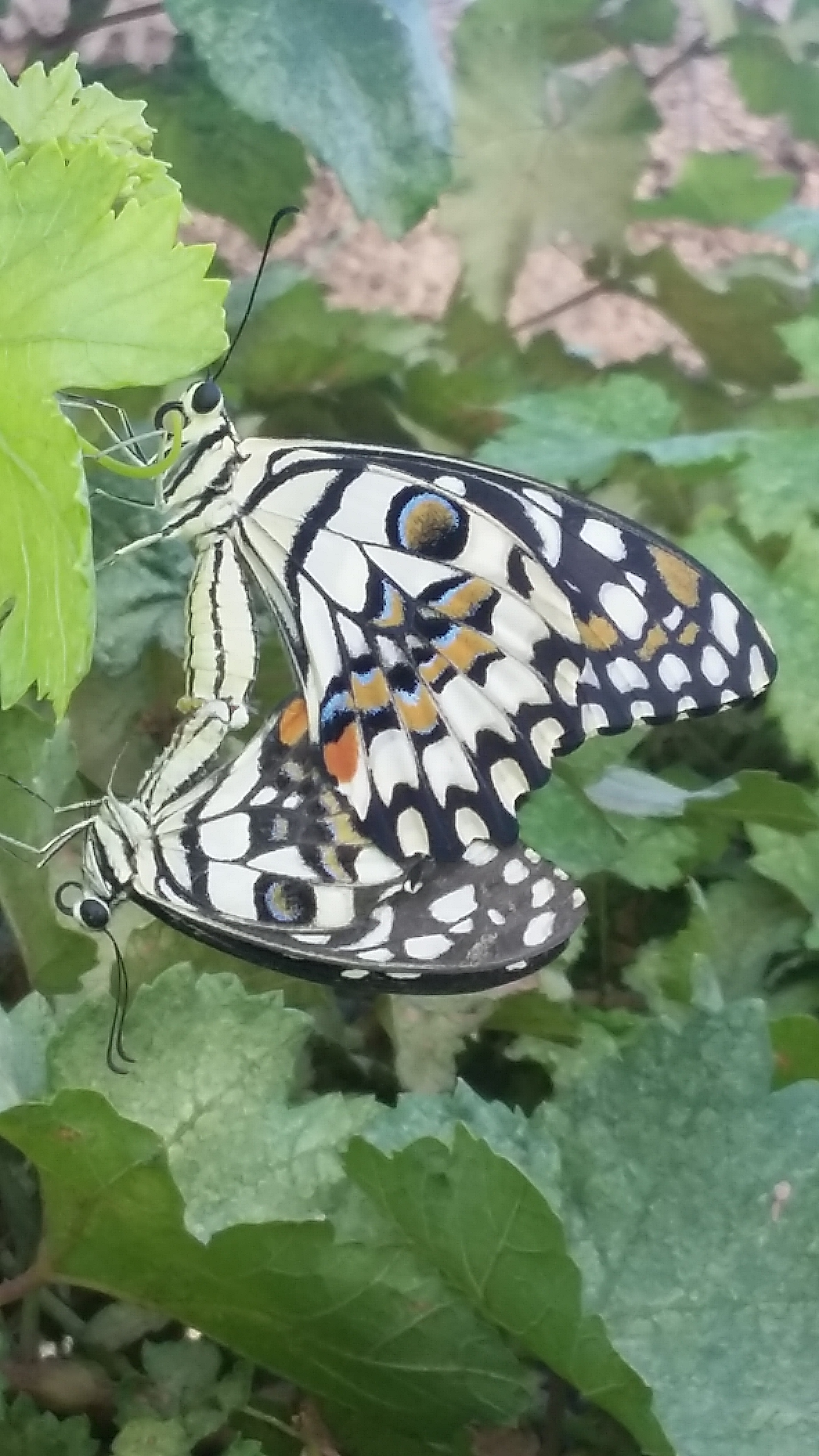 Matting at Butterflies